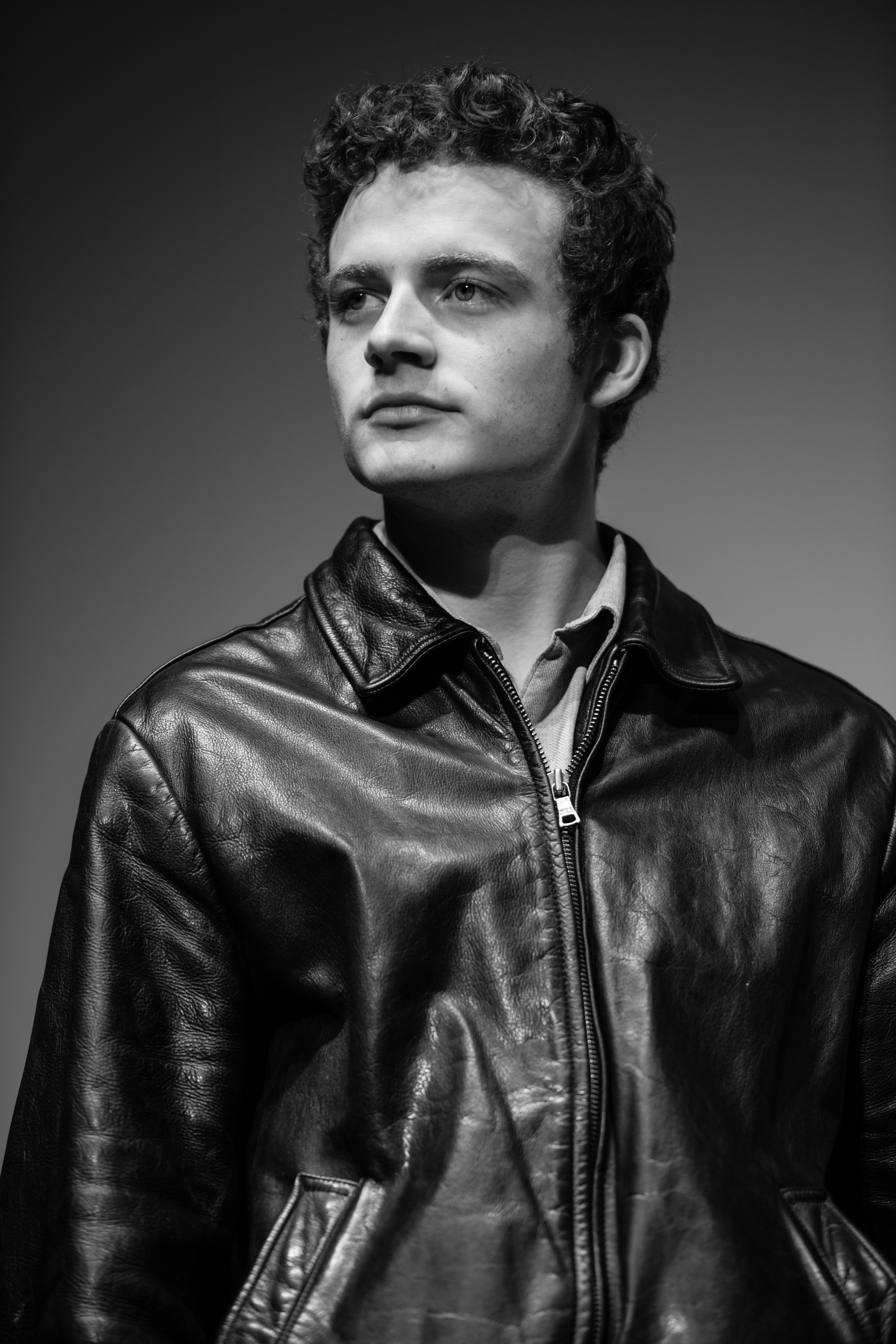 photo by “Neil Grabowsky / Montclair Film Festival”